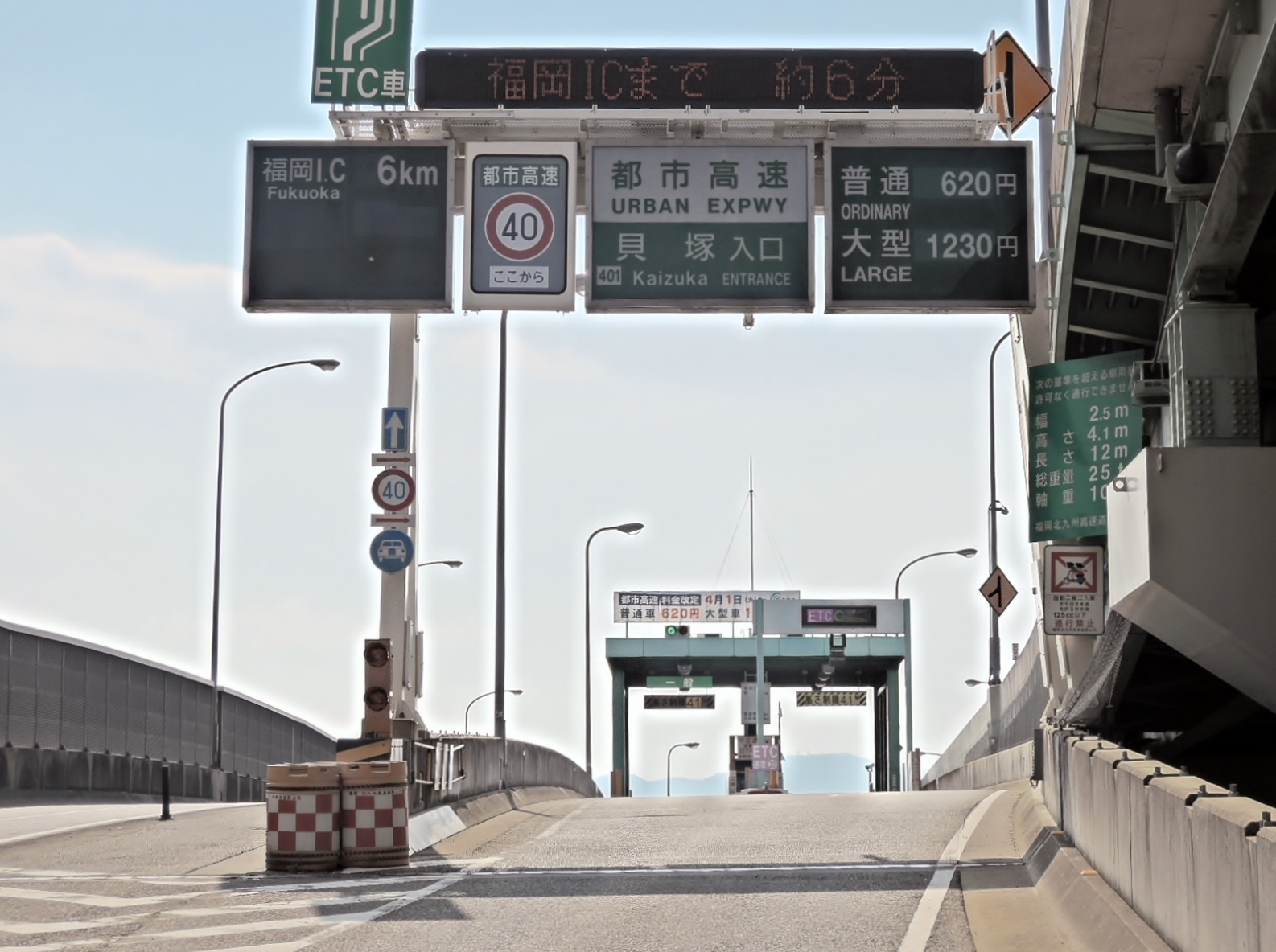 Kaizuka Interchange on the Fukuoka Expressway Kasuya Route